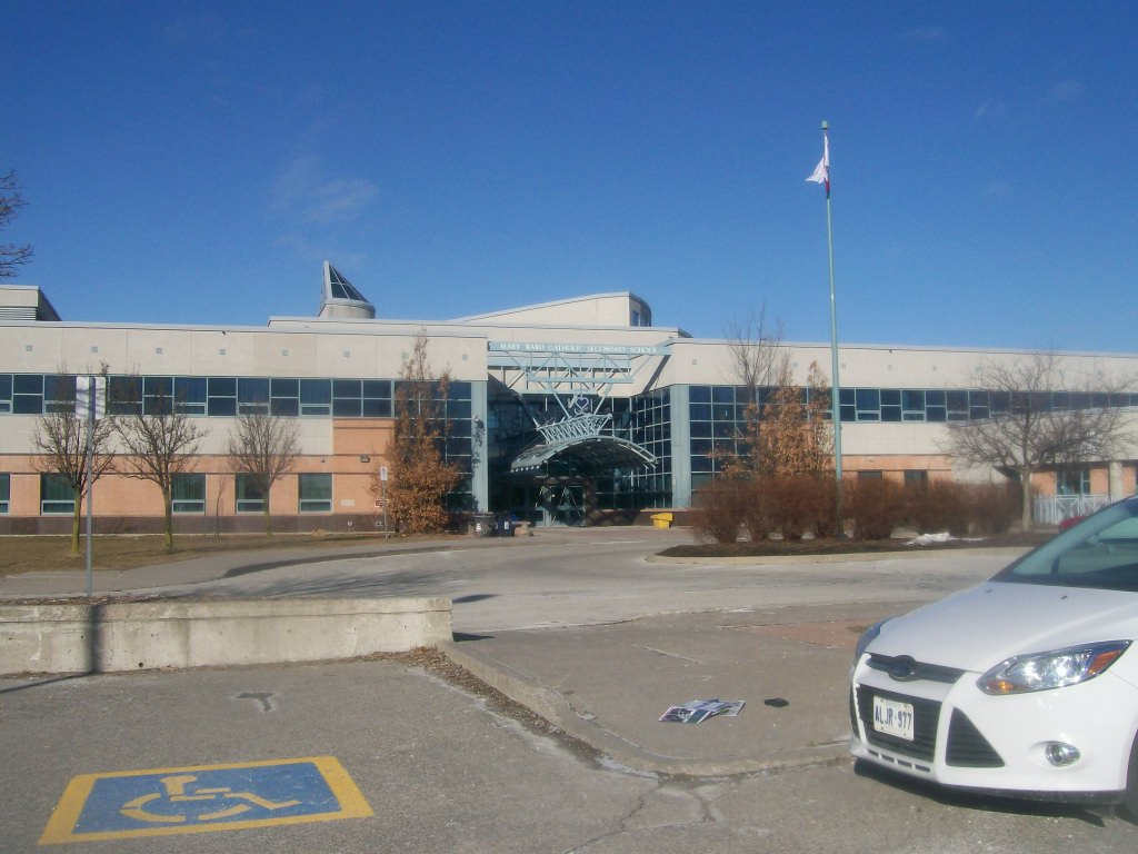 The front view of Mary Ward Catholic Secondary School, April 2013.